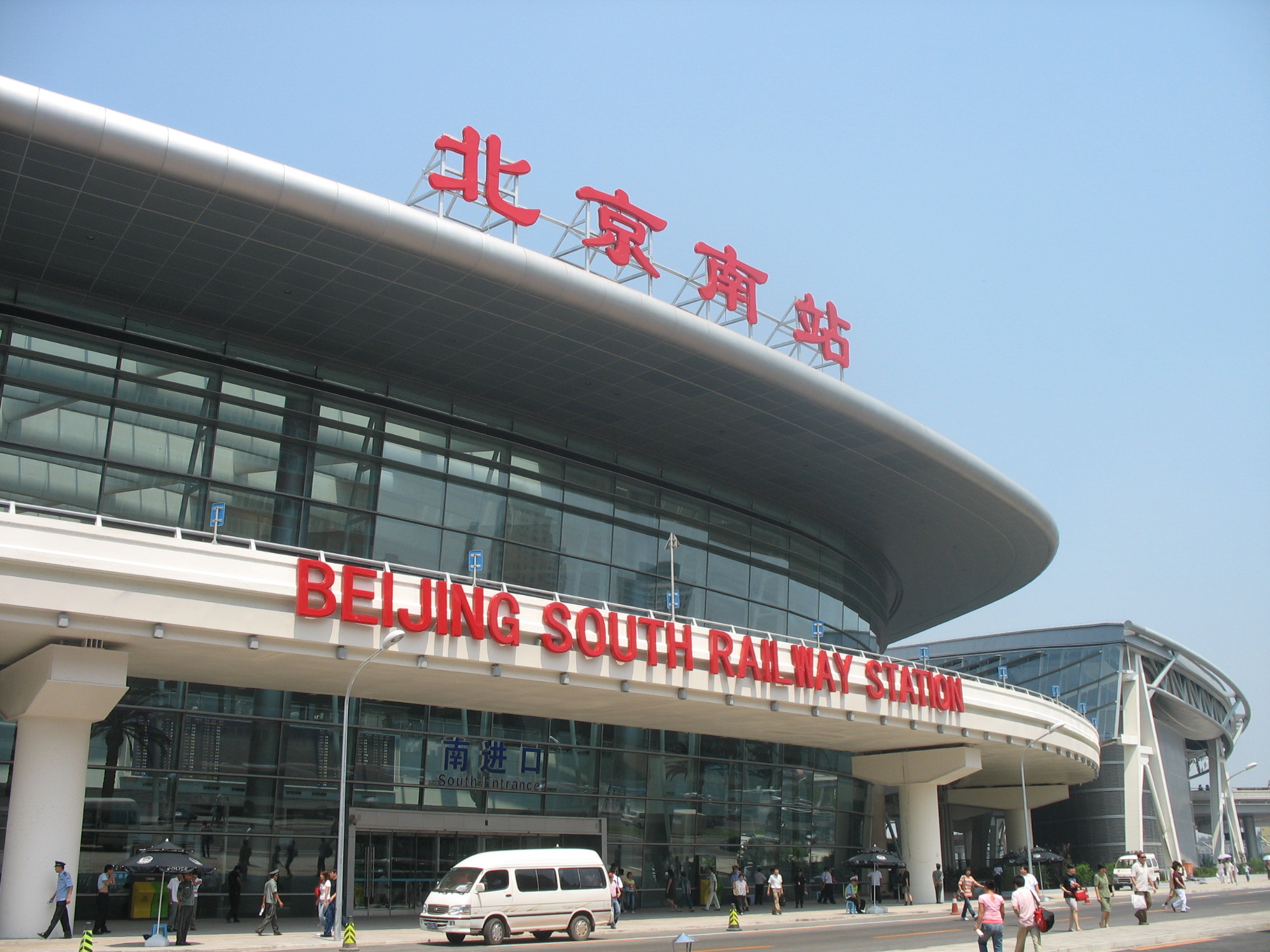 Beijing South Railway Station 中文（中国大陆）: 北京南站南广场